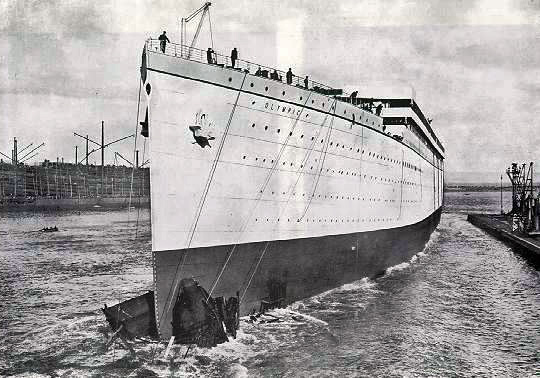 RMS Olympic launching